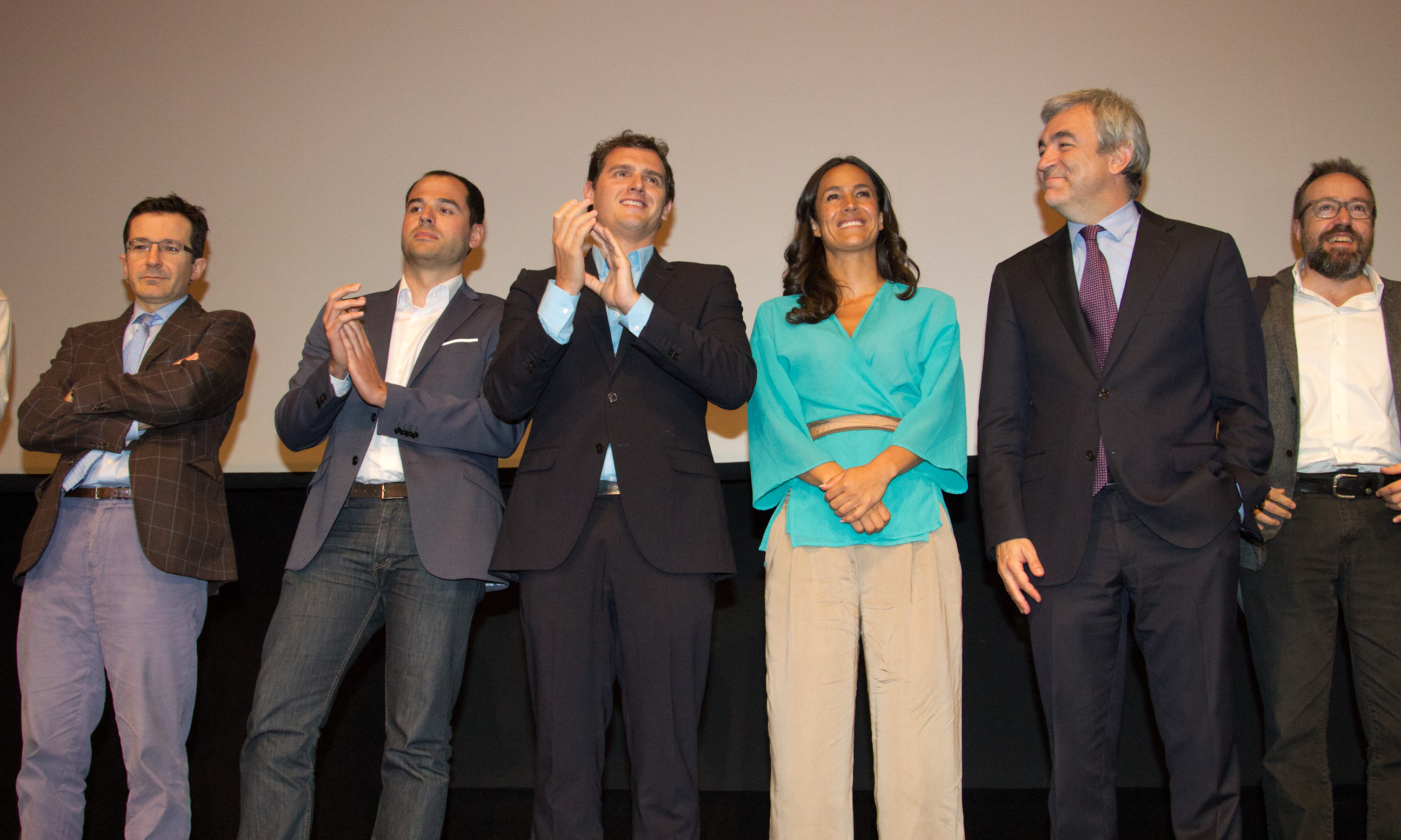 Introduction of economic proposal by Ciudadanos party.